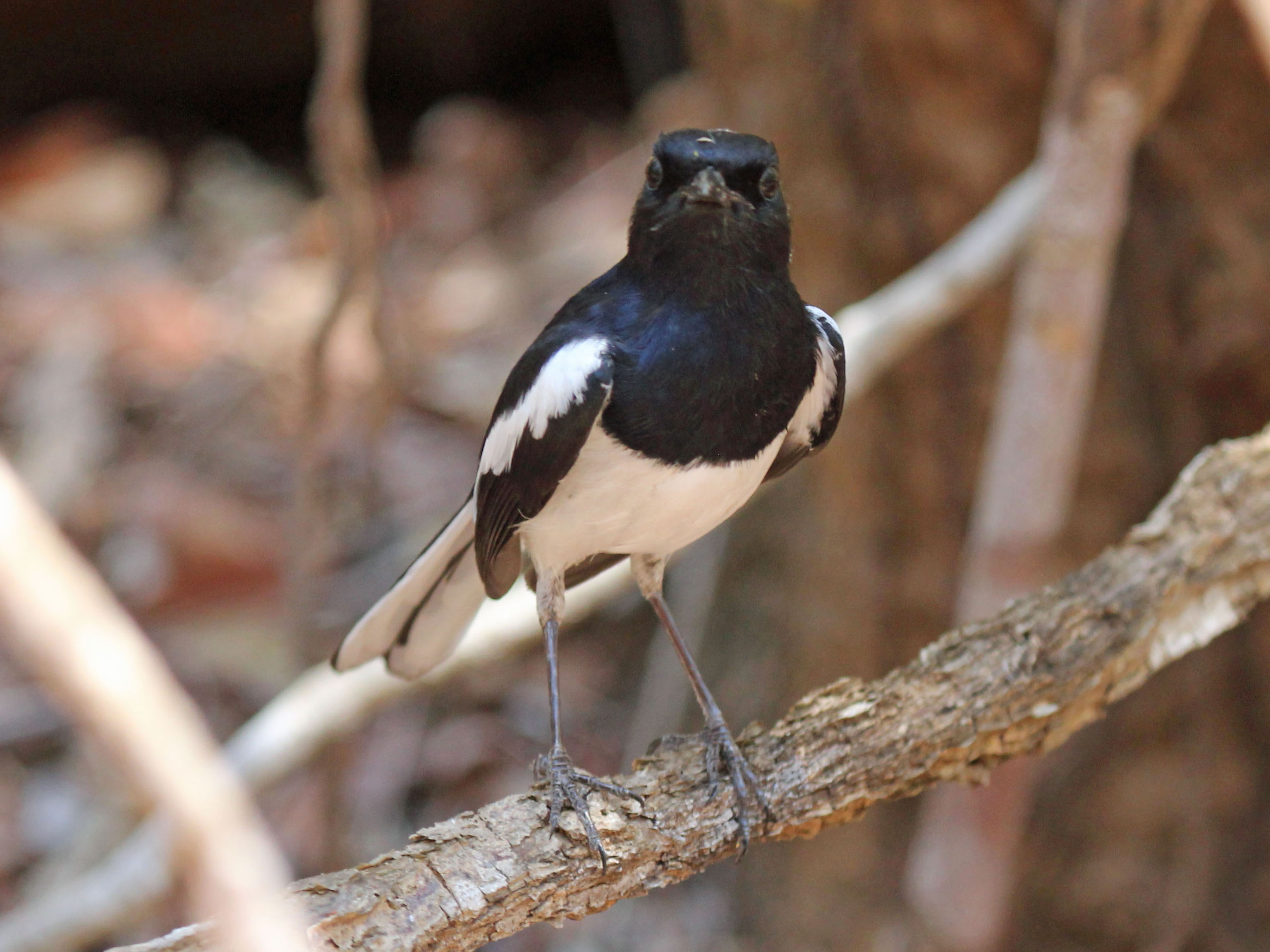 Male Madagascar Magpie Robin (Copsychus albospecularis) - Kirindy Forest, Madagascar